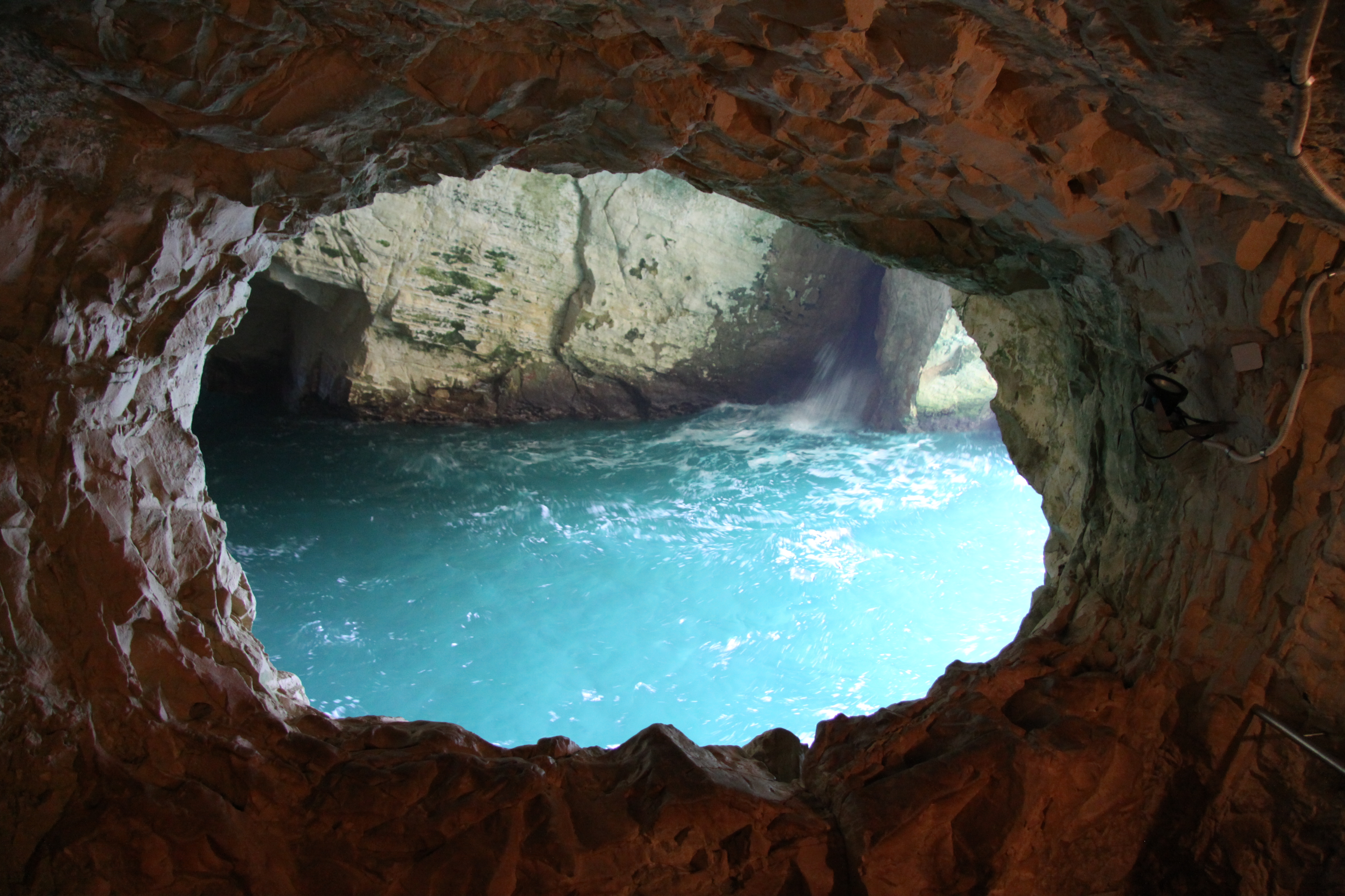 Nature reserve Rosh Hanikra near Lebanon border, Israel